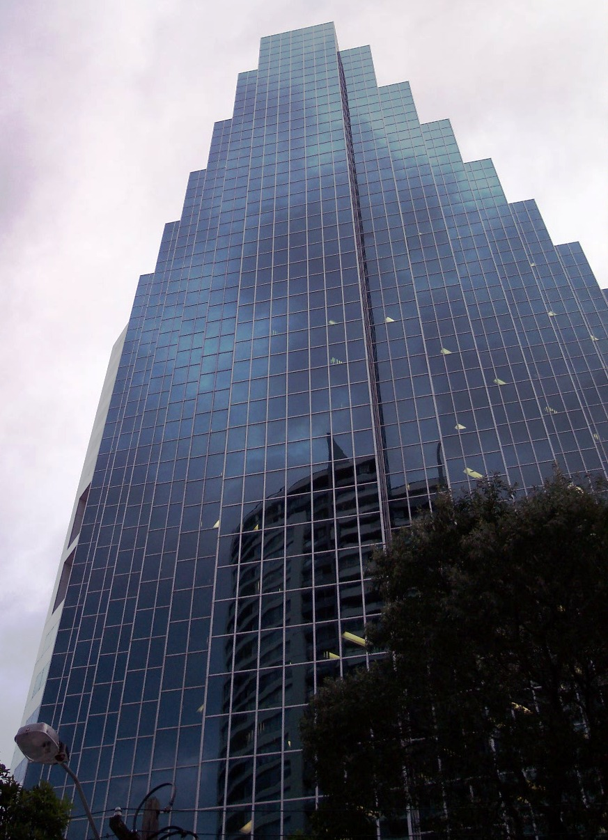 Zenith centre